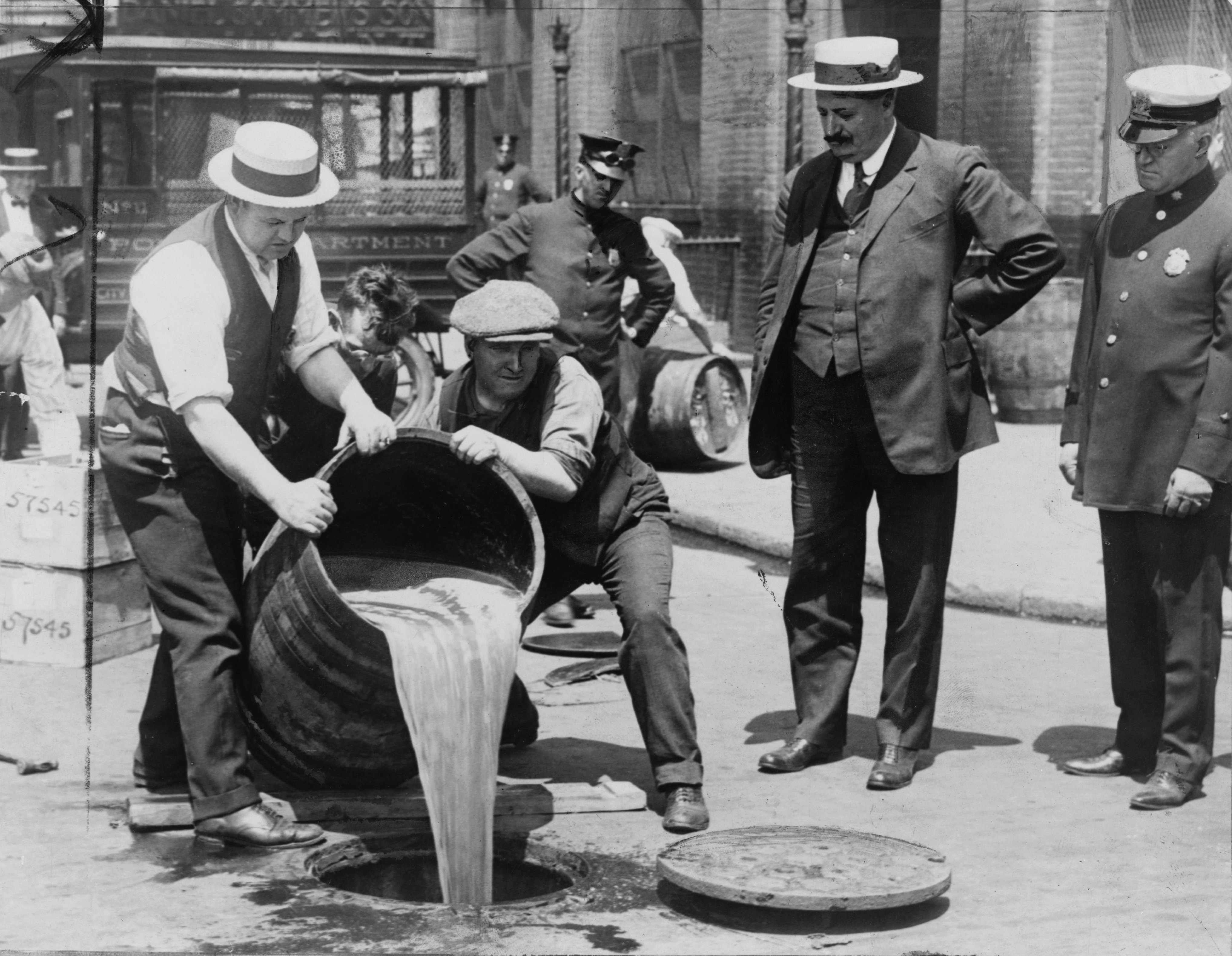 New York City Deputy Police Commissioner John A. Leach, right, watching agents pour liquor into sewer following a raid during the height of prohibition